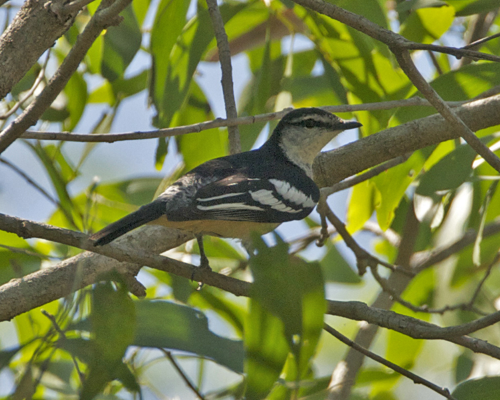 Varied Triller Lalage leucomela Race rufiventris Northern territory, Australia August 2010 690V0067